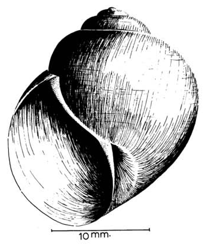 Drawing of apertural view of the shell of Lanistes ovum.